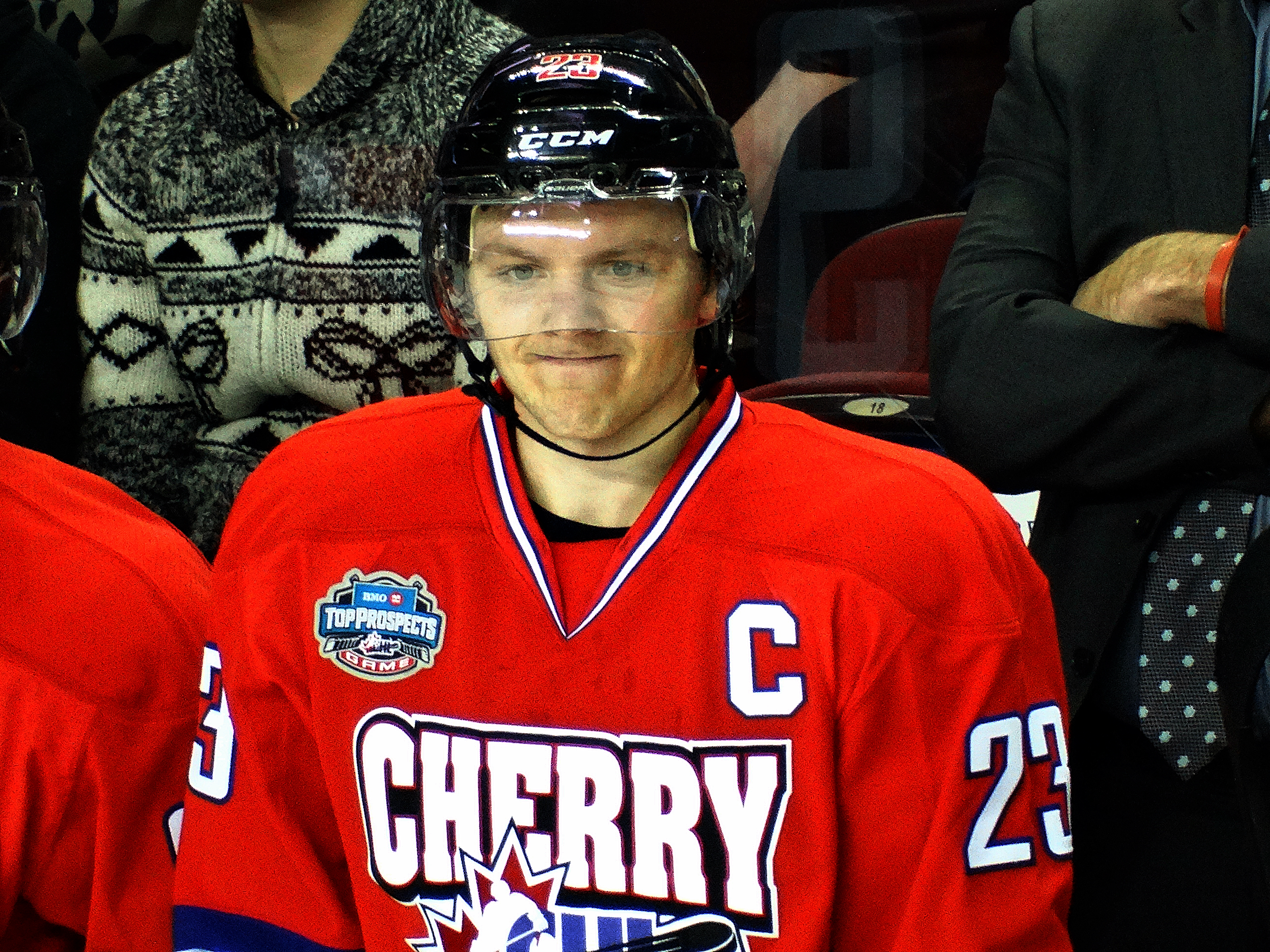 Sam Reinhart of the Kootenay Ice (WHL) was named Captain of Team Cherry. The CHL / NHL Top Prospects game at Scotiabank Saddledome on January 15, 2014 in Calgary, Alberta, Canada. Team Orr defeated Team Cherry 4-3.